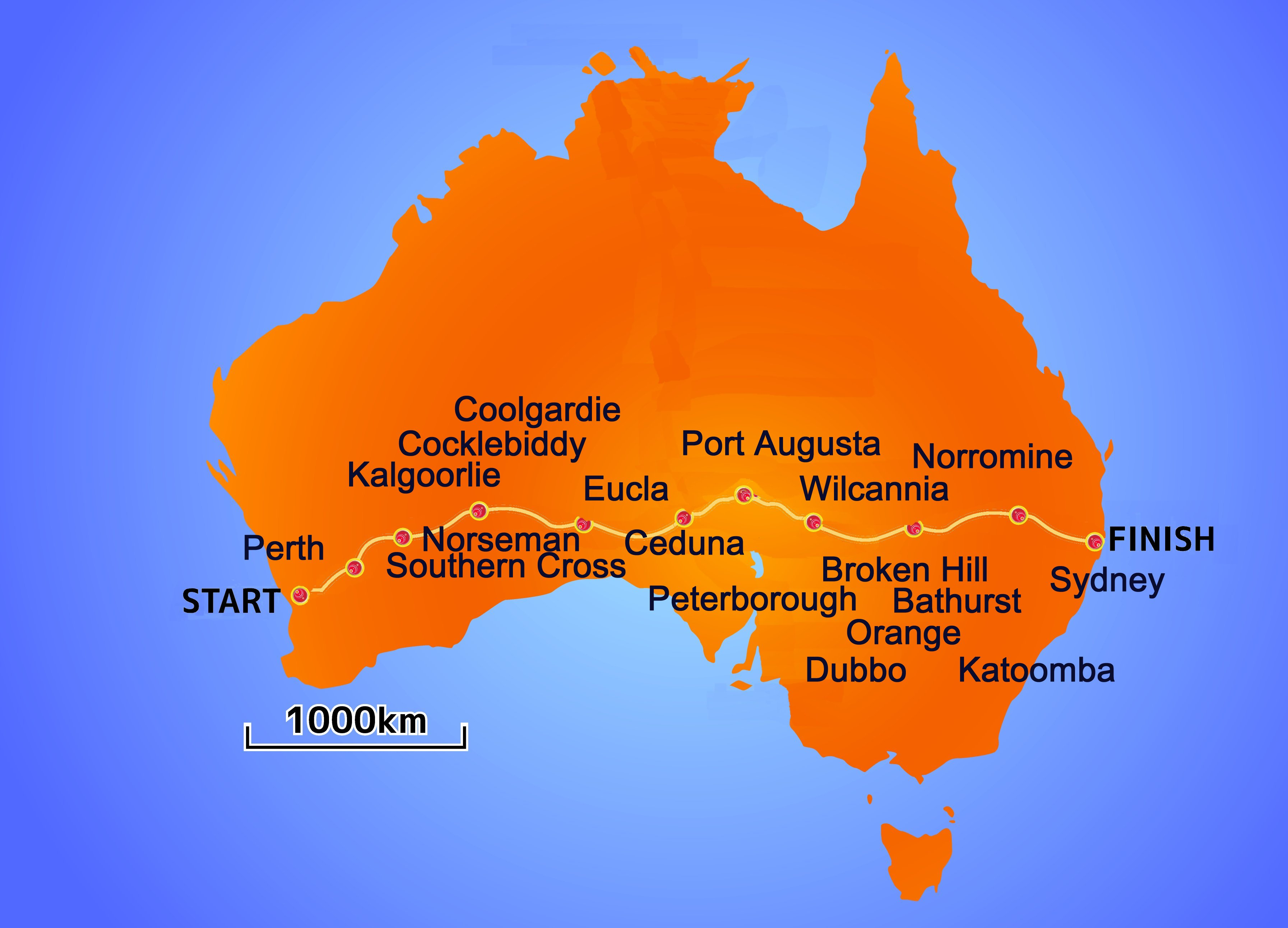 Australian 2500 mile transcontinental route for first solar powered racecar